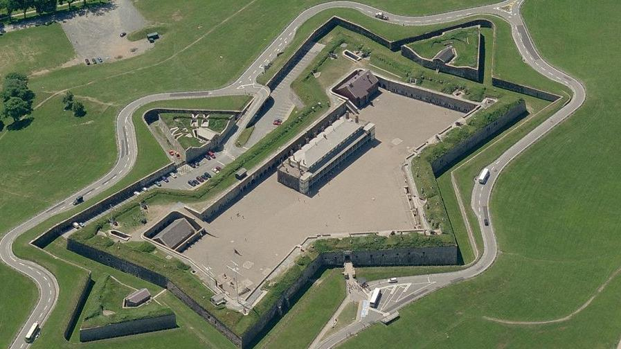 Citadel Hill, Halifax NS